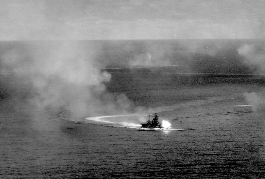 The Japanese Battleship Ise firing her main guns during the Battle off Cape Engaño, 25 October 1944. The photo was taken by a U.S. Navy plane from the aircraft carrier USS Essex (CV-9).